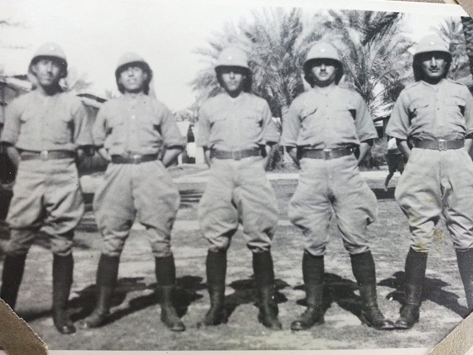 Junior Iraqi officers graduated fro the Royal military college in Baghdad Al-Rustomyia, amoung the Khaleel Jassim the first from the right.1940